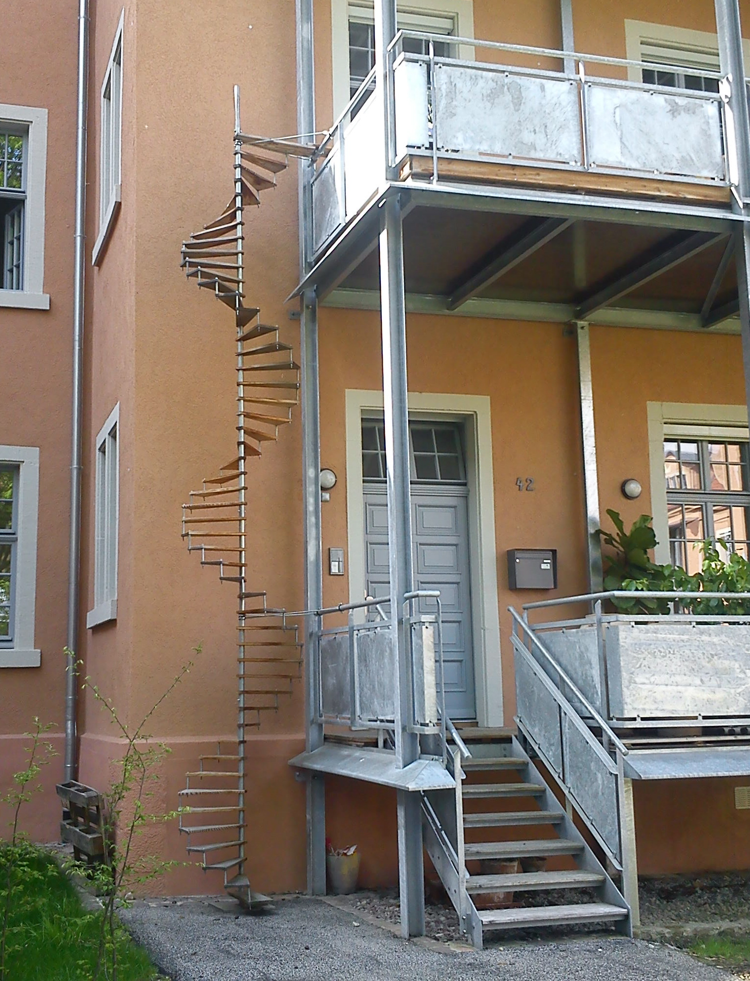 circular newel stair with metal newel and wooden steps as cat ladder in Achern, Germany